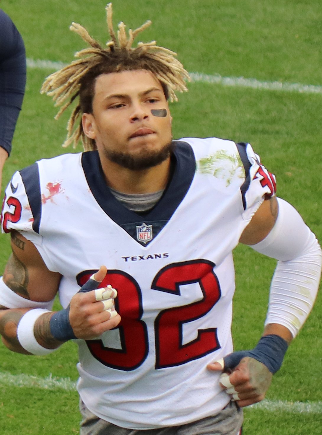 Tyrann Mathieu, a National Football League player.